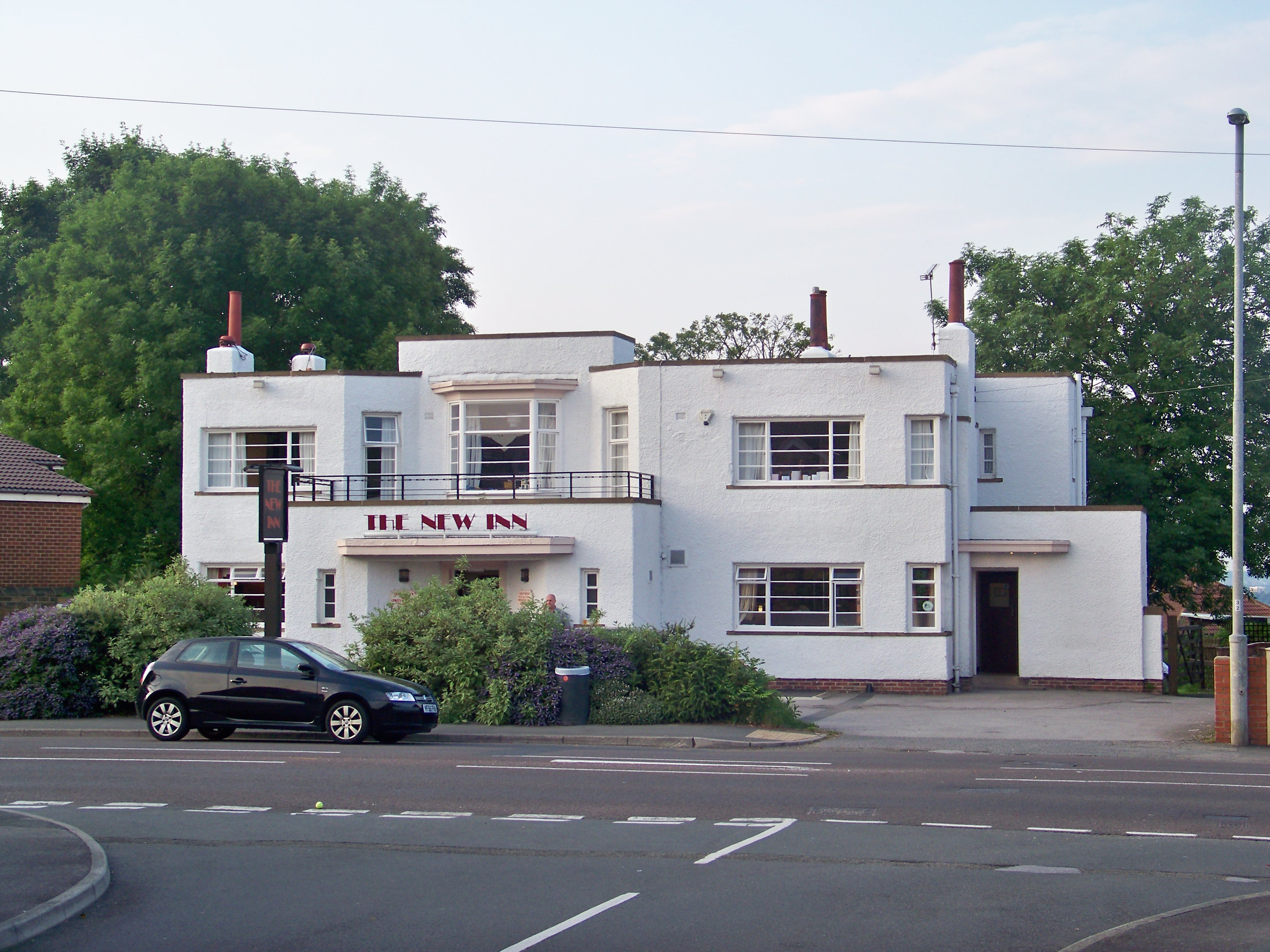 The New Inn in Gildersome, Leeds, West Yorkshire, UK (Note the art deco overtones). Taken on the evening of Wednesday 1st July 2009.